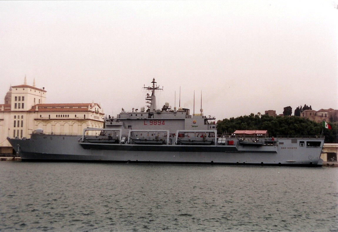 Italian amphibious ship San Giorgio in the port of Malaga